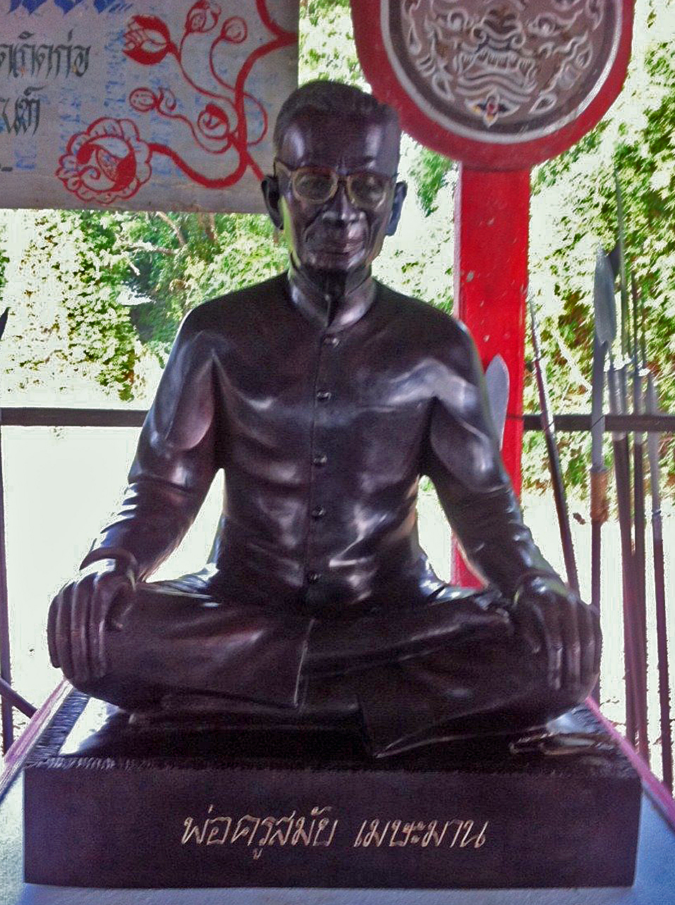 A Bronze Statuette of “Por Kru” the late Grand Master Samai Mesamarn (1914-1998) of Buddhai Swan.